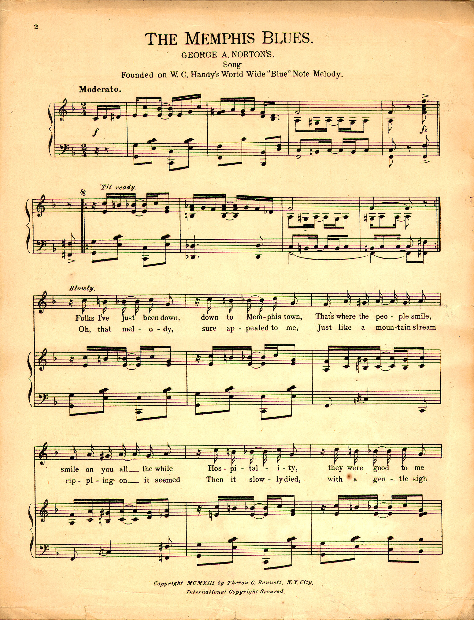 Sheet music of W. C. Handy's "The Memphis Blues". Page 1 of 4.